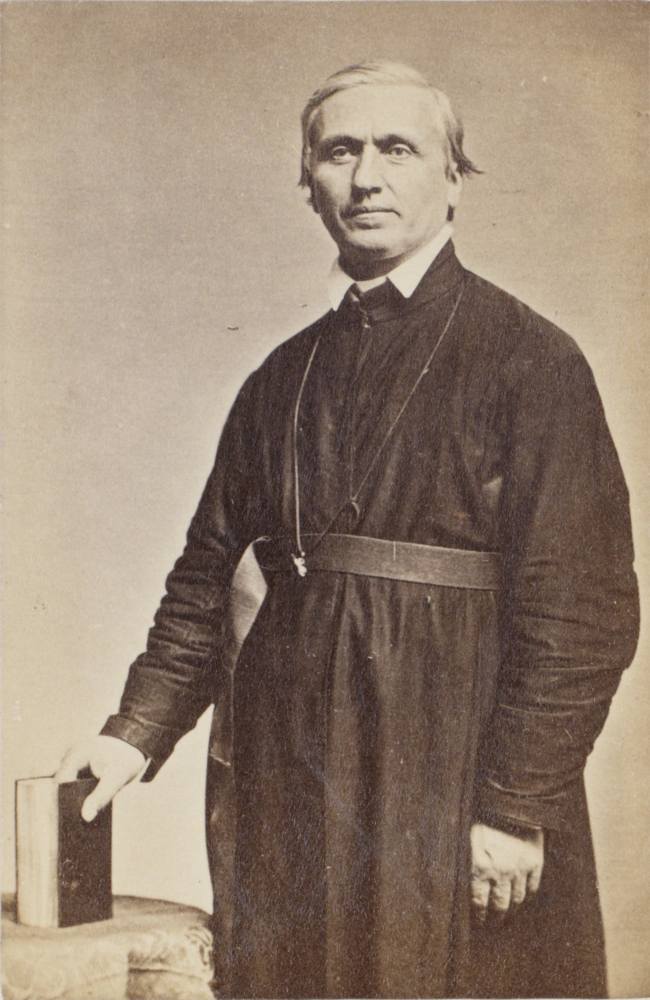 Photograph of Rev. John Bapst, S.J. standing